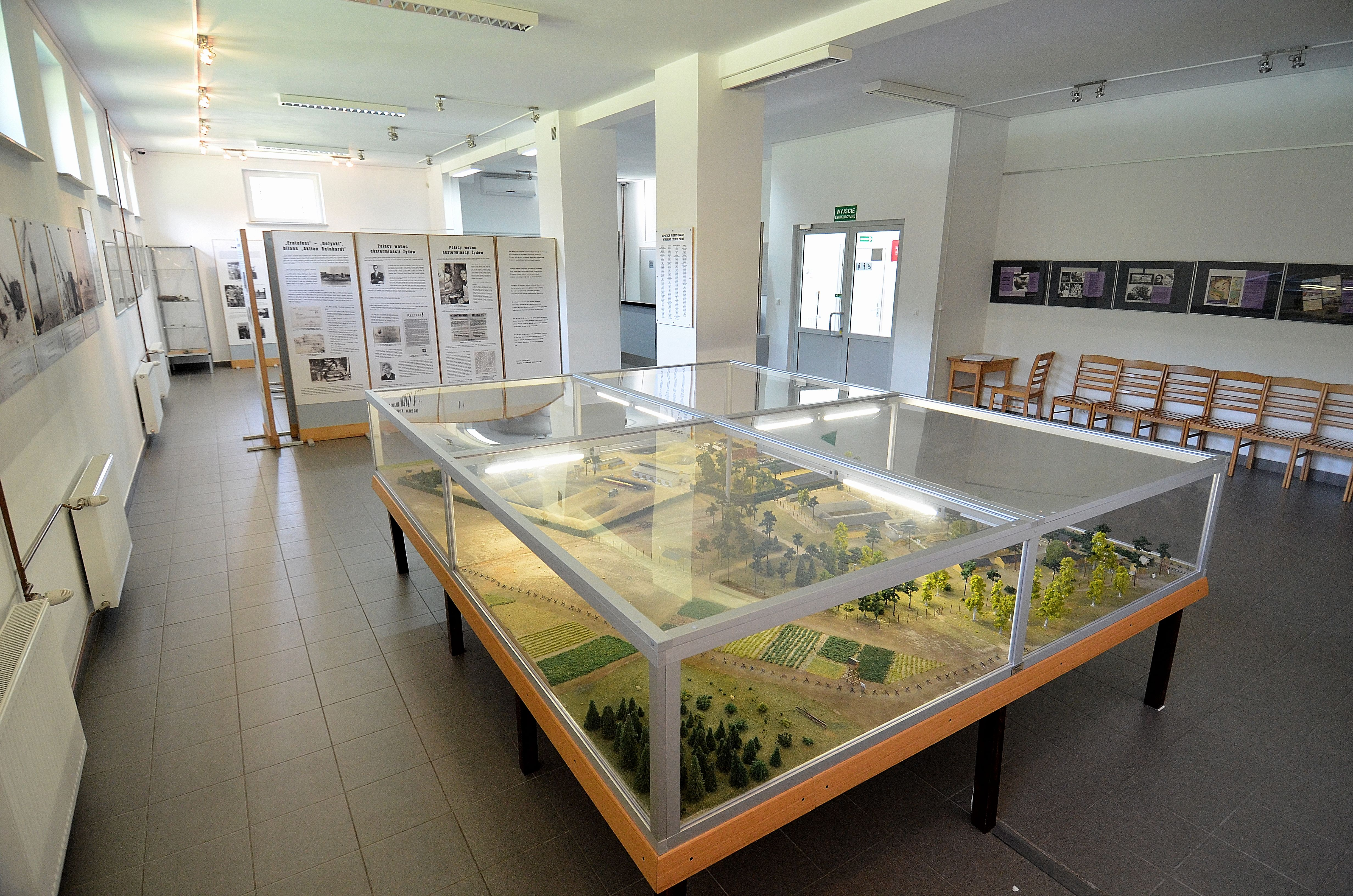 Model of Treblinka II death camp in the Treblinka Museum